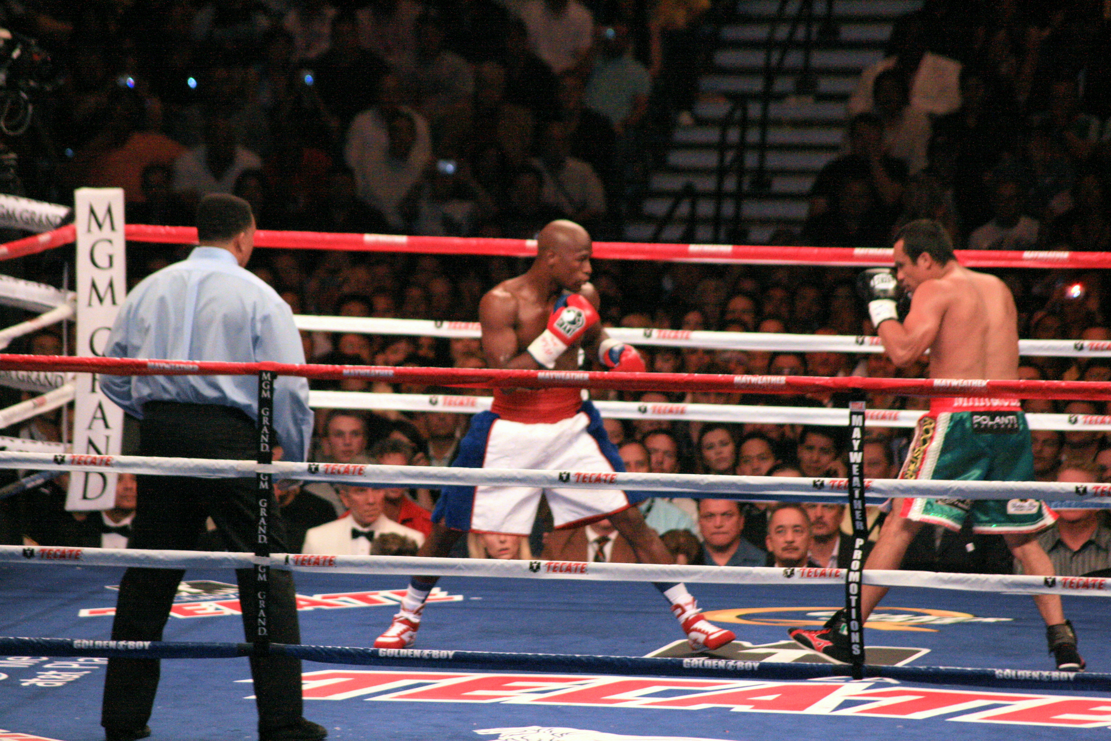 Floyd Mayweather, Jr. vs. Juan Manuel Márquez at the MGM Grand Garden Arena in Paradse, Nevada, on September 19, 2009.